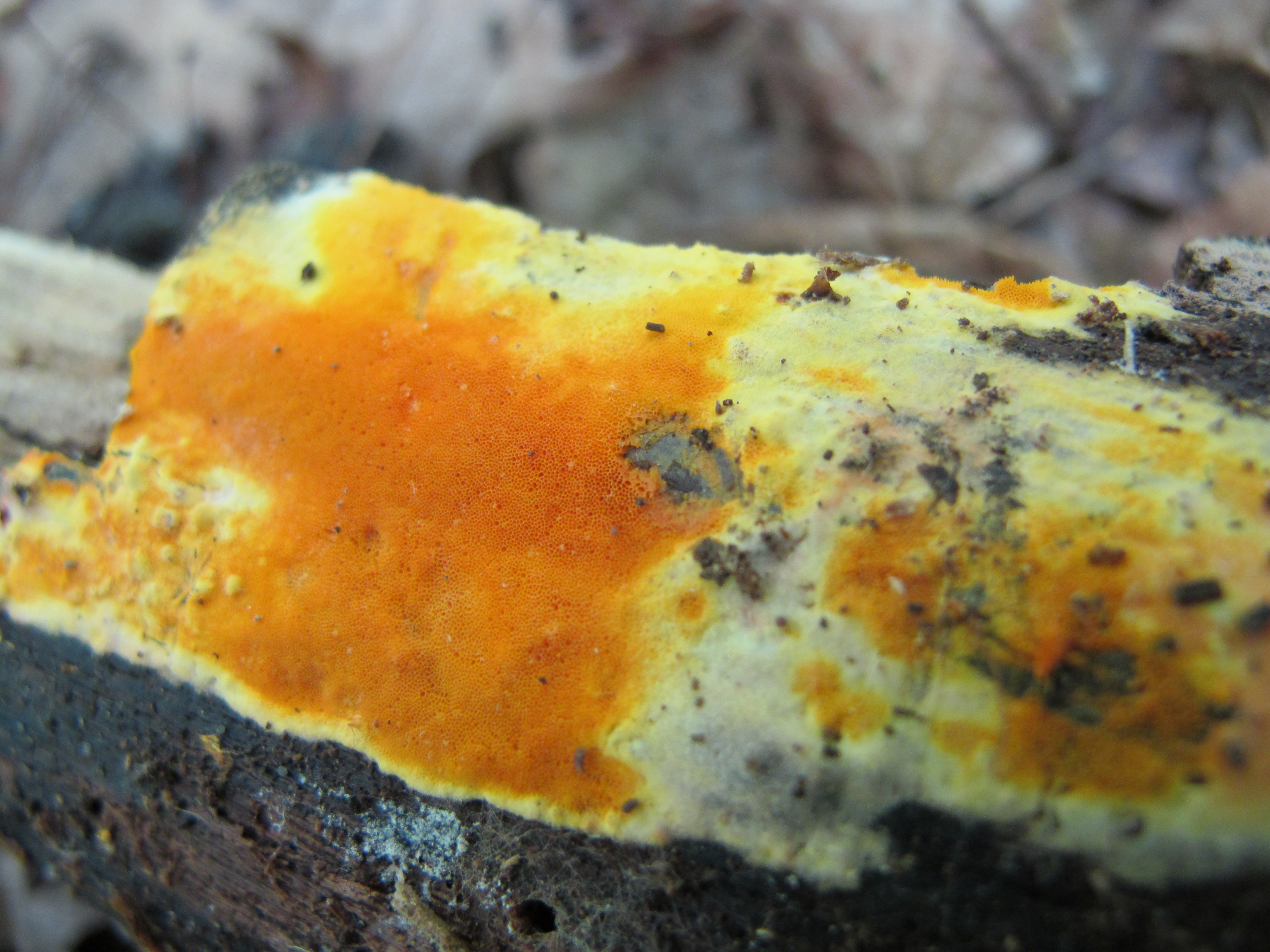 The crust fungus Ceriporia spissa ( Schwein. ex Fr.) Rajchenb. Specimen photographed in Bedford, NY, USA.